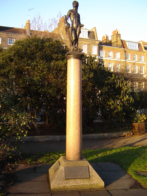 'The Boy David', Memorial to the Machine Gun Corps in World War I, Chelsea Embankment, Chelsea, London. 21 January 2006. Photographer: Fin Fahey.